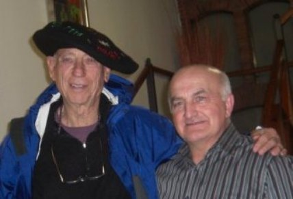 Bill Felstiner in Onati with Basque friend)